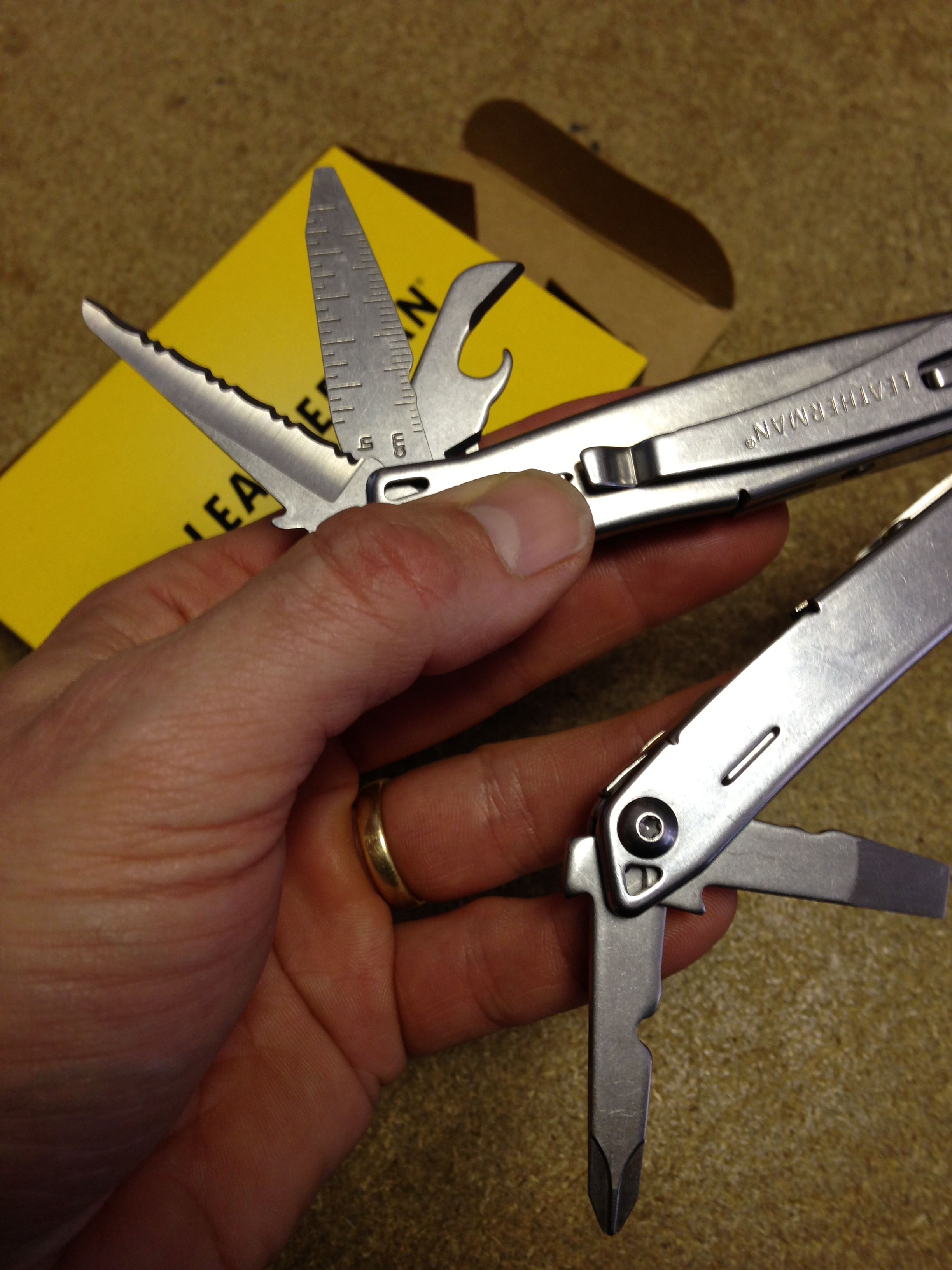 Leatherman Sidekick - closeup of internal tools